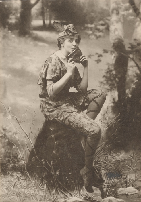 American Actress Maude Adams (1872-1953) as Peter Pan in the 1905 production.